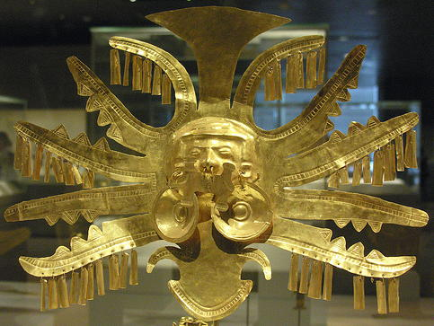 A Yotoco (Calima) headrest ornament from Colombia. Now in the Metropolitan Museum of Art.